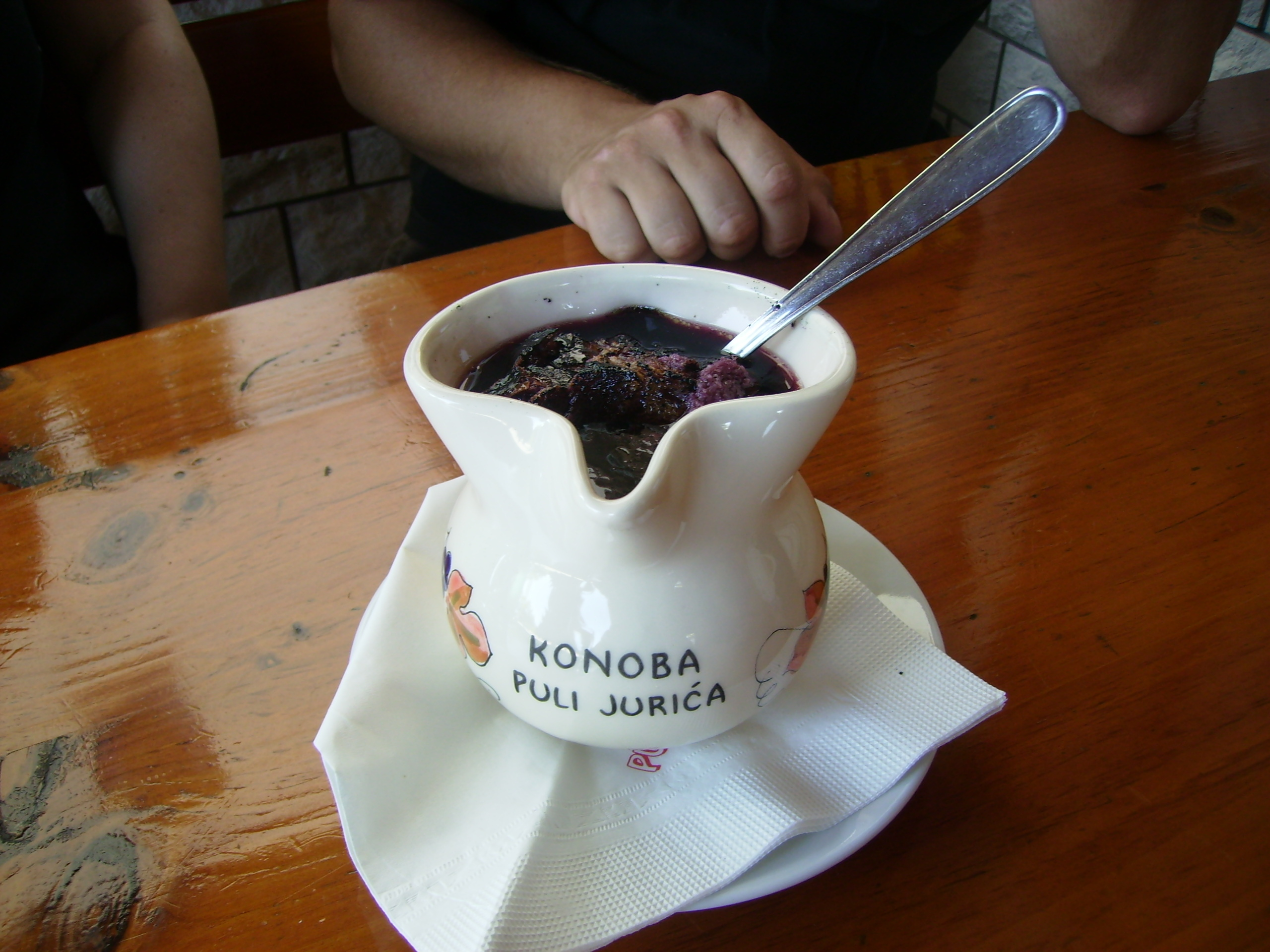 Bukaleta with supa in Istria (at Jurići).